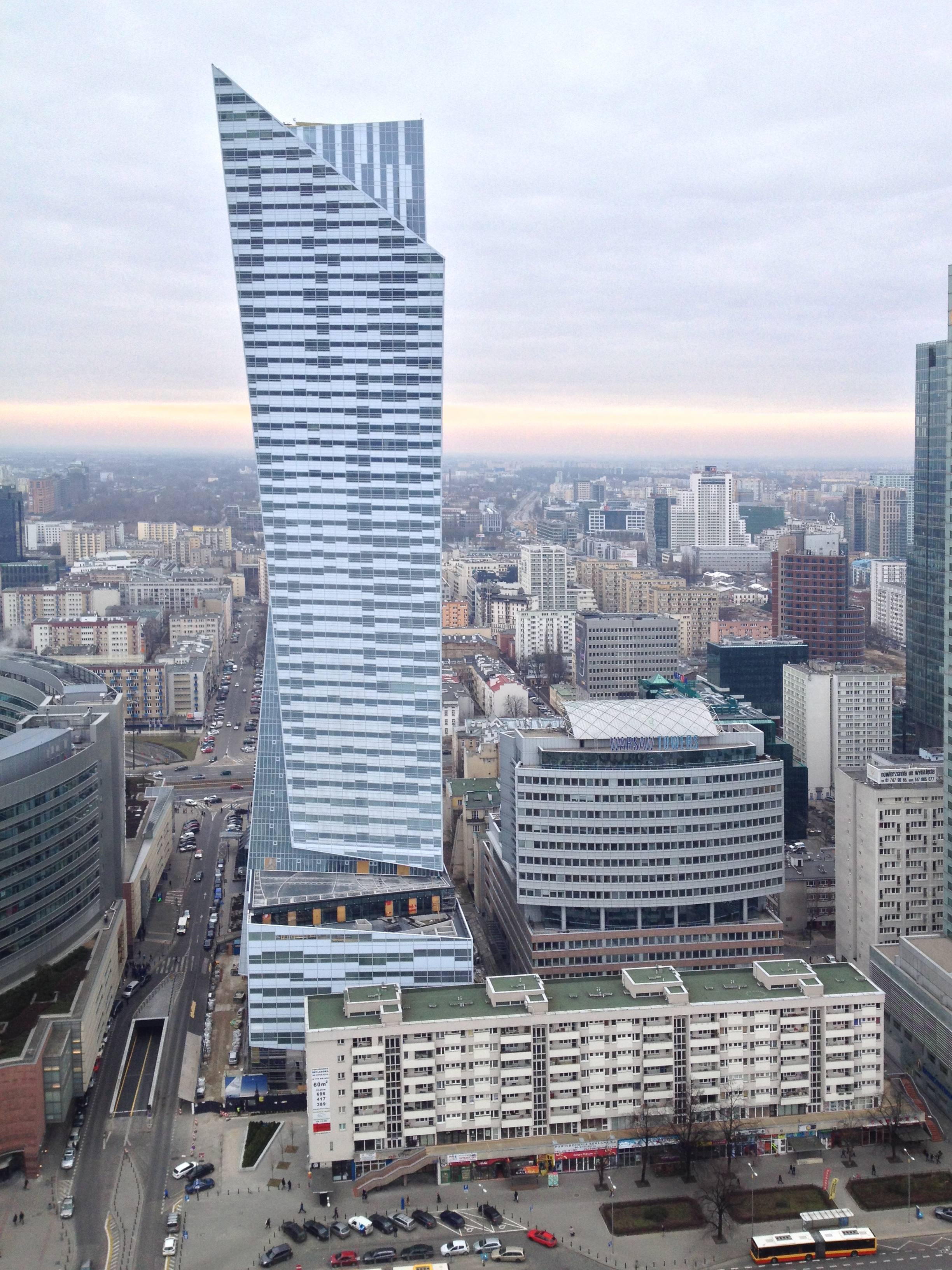 View from the Palace of Culture and Science in Warsaw to Daniel Libeskind’s Złota 44.